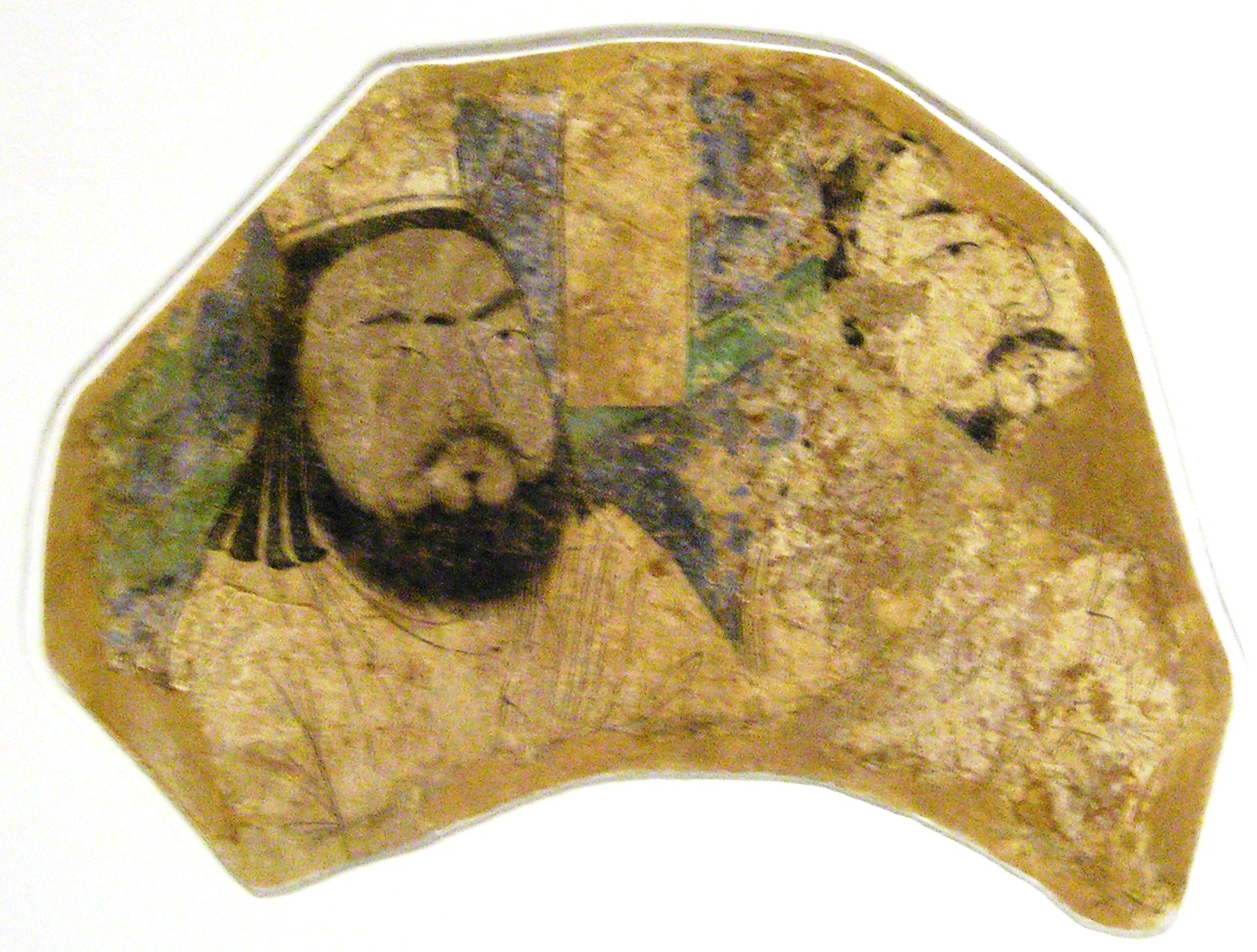 Manichaean clergymen, Khocho ruins, 10th/11th century CE. Wall painting, 28 x 36 cm. Located in the Museum für Indische Kunst, Berlin-Dahlem.